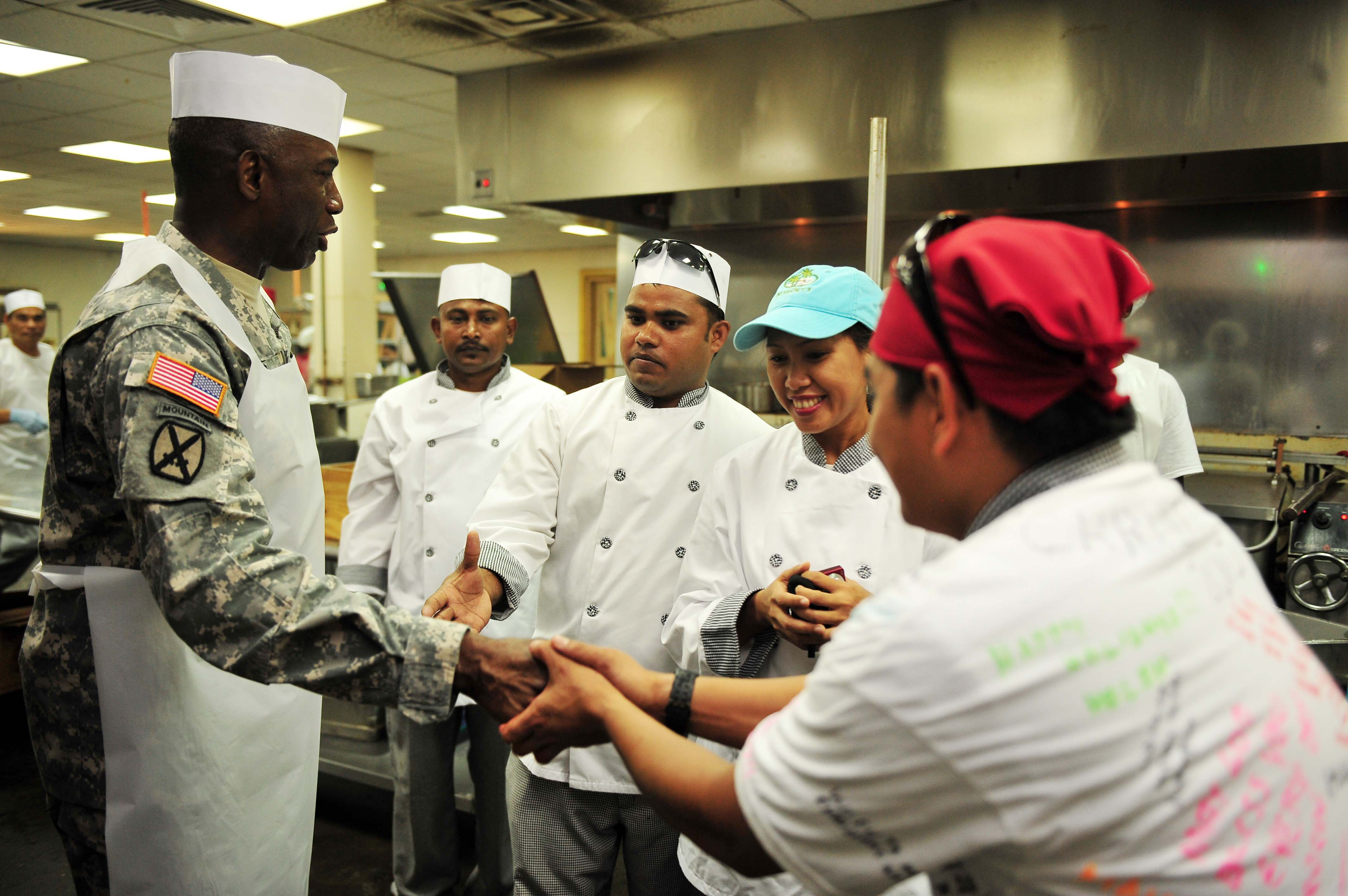 Gen. Kip Ward greets PAE staff working at Camp Lemonnier, Djijouti, Dec. 25, 2010. U.S. Air Force photo by Staff Sgt. Katherine McDowell U.S. Army Gen. William "Kip" Ward, U.S. Africa Command (AFRICOM) commander, greets Pacific Architects and Engineers (PAE) employees before serving Christmas dinner Dec. 25. Gen. Ward, along with Sgt. Maj. Mark Ripka, AFRICOM senior enlisted leader, visited troops stationed at Camp Lemonnier for the holidays. To learn more about U.S. Army Africa visit our official website at Official Twitter Feed: Official YouTube video channel